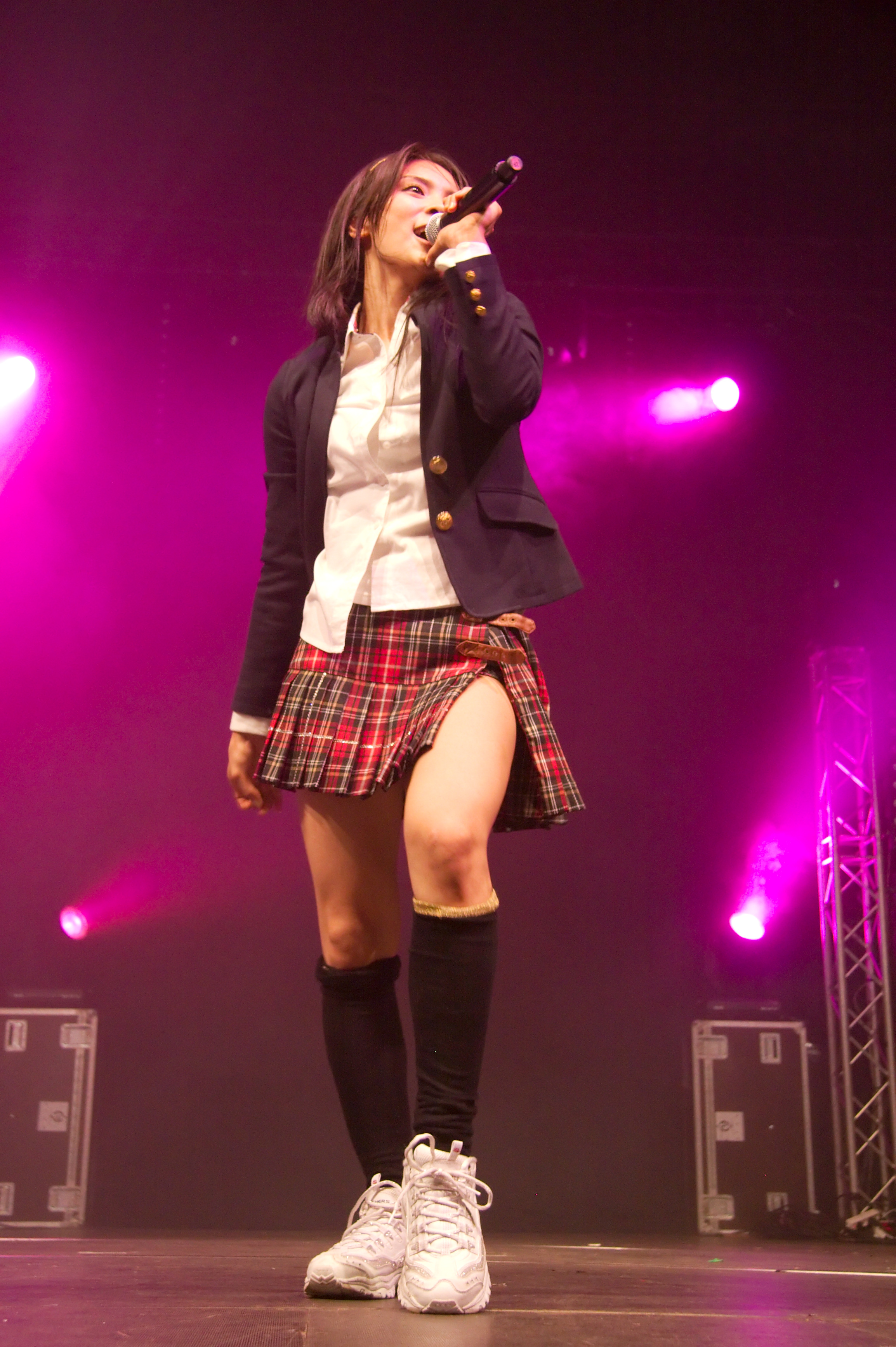 AKB48 live at Japan Expo 2009 (Paris, France).